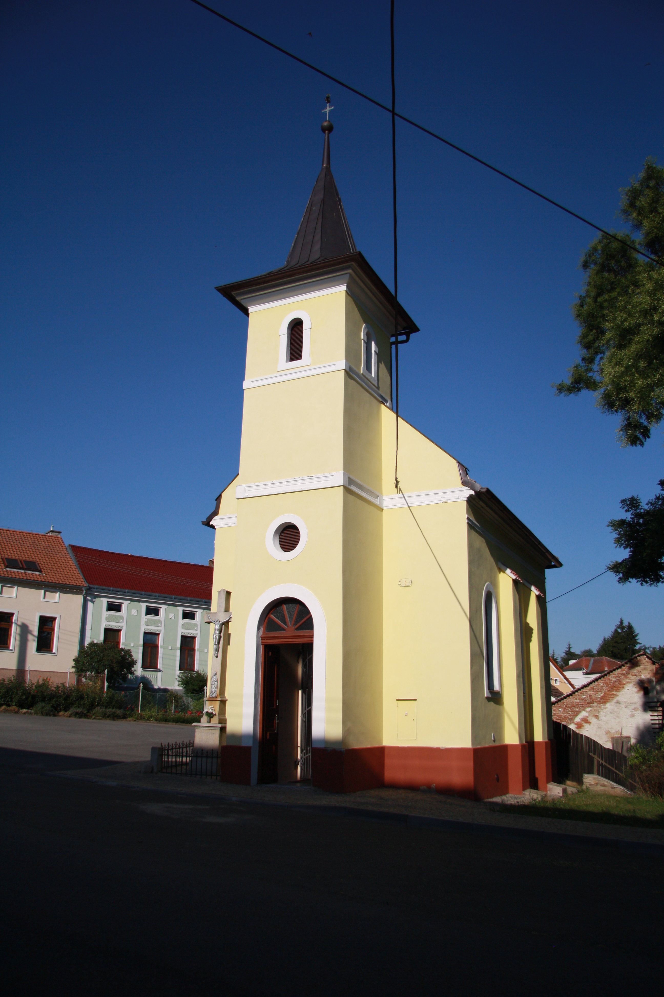 Chapel of John of Nepomuk in Hornice, Třebíč District.